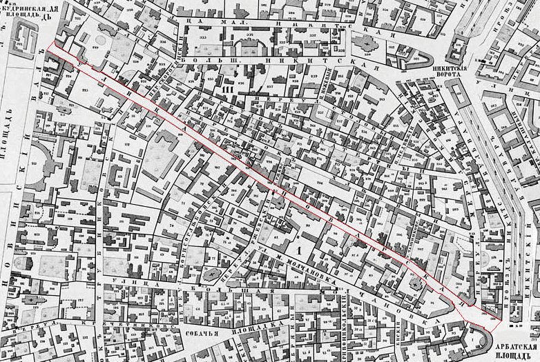 A fragment of 1853 Hotev's Atlas of Moscow